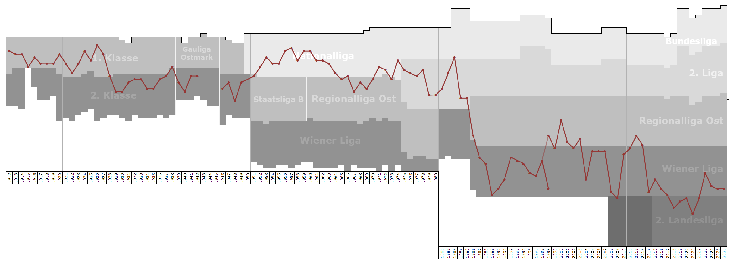 Chart of end-season table positions of 1. Simmeringer SC in the Austrian football league system. Data source: RSSSF, , regiowiki.at, wikipedia